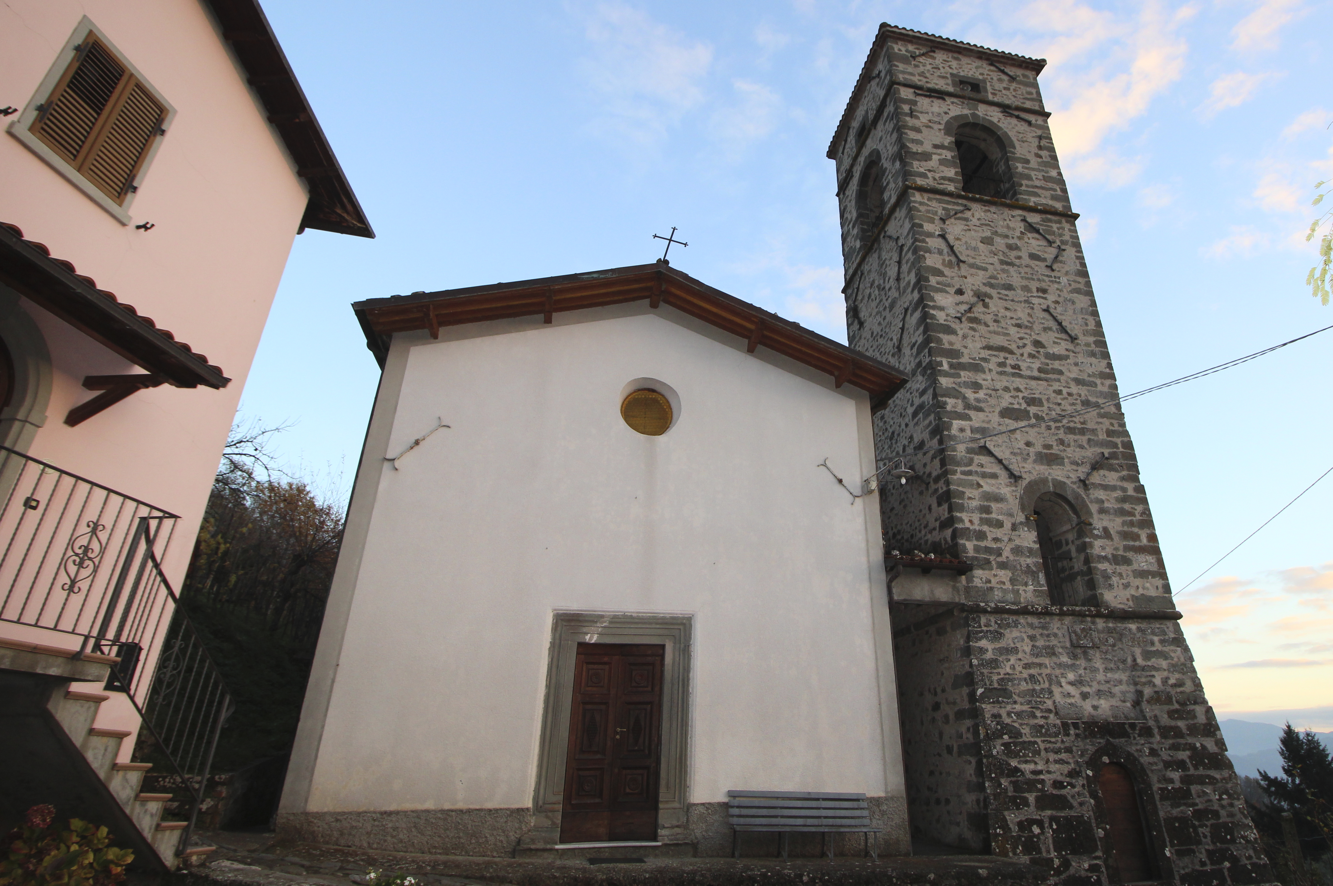 Church Santa Maria Assunta, Magnano, hamlet of Villa Collemandina, Garfagnana, Province of Lucca, Tuscany, Italy